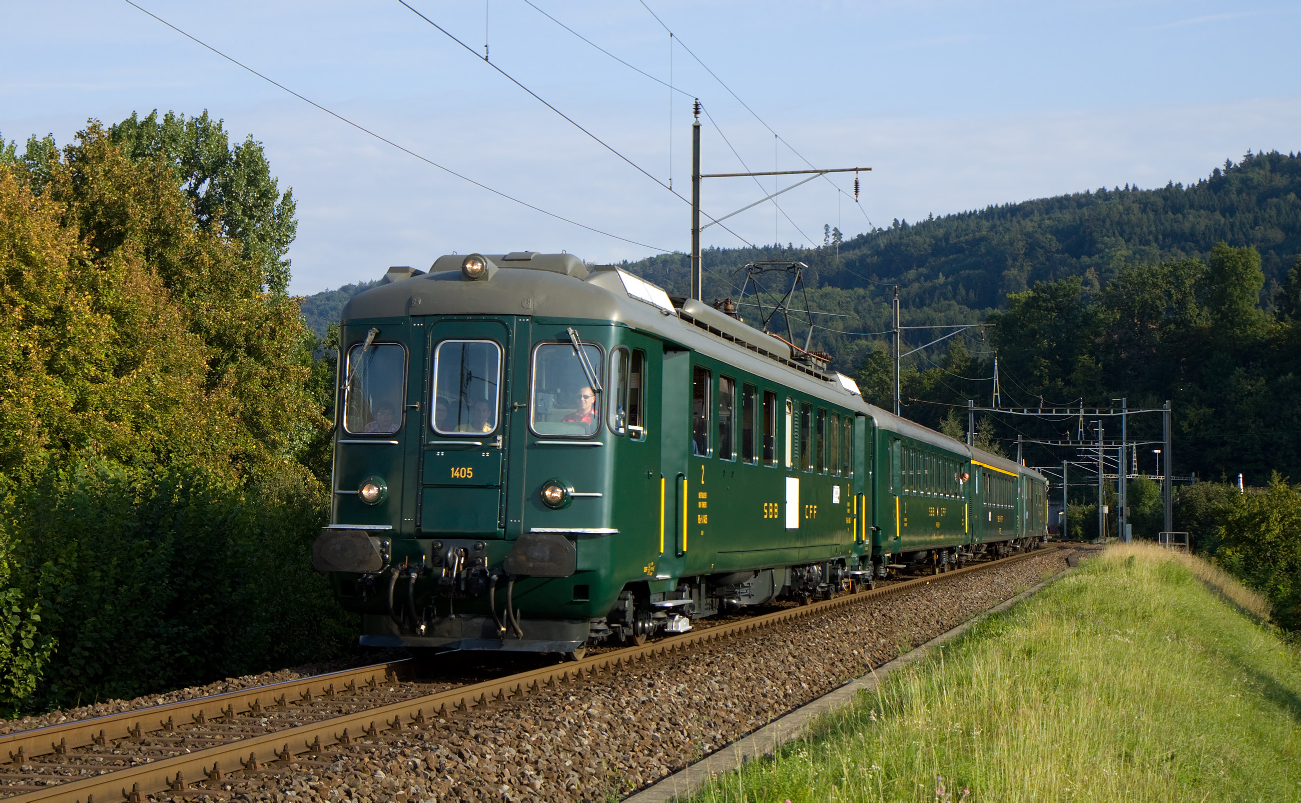 Former SBB RBe 4/4 multiple unit, now owned by the Draisinensammlung Fricktal, recently returned to its original state, with a push-pull train (EW I B, EW II A, DZt control car). The picture was taken just after Turgi station on the line to Koblenz on the occasion of the 150 years Turgi - Koblenz - Waldshut railway line jubilee.